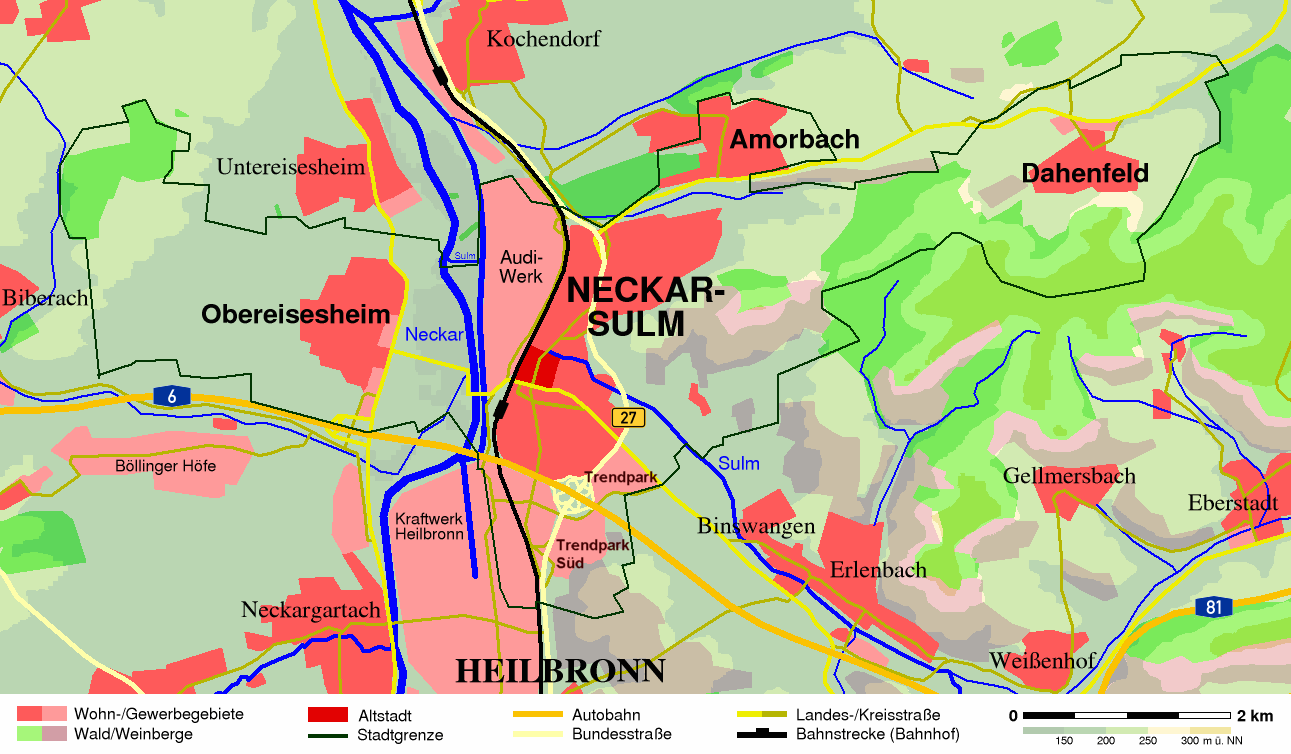 Map of Neckarsulm (Germany) and surrounding area